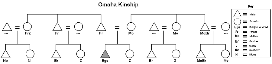 Graphic of the Omaha kinship system, authored by the uploader. The author releases all rights to this image.